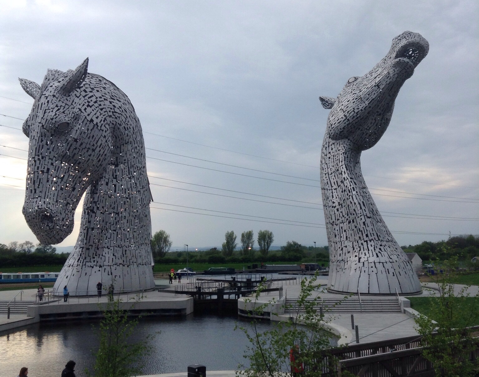 An image of the Kelpies